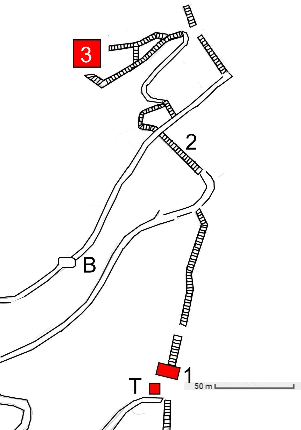 Layout of Iyadani temple, Kagawa Prefecture, Japan